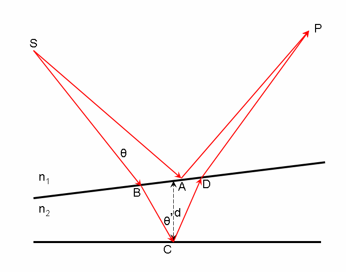 An illustration of equal thickness interference.